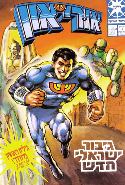 Cover of Uri-On, Israel's first full-color Superhero comic book, drawn by Michael Netzer. (Israel Comics, 1987)